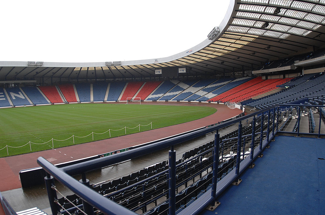 Scotland National Stadium